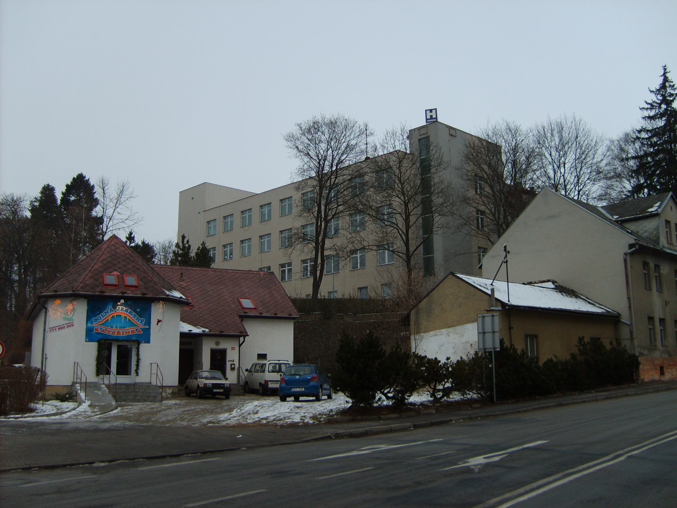 County hospital in Pelhřimov.